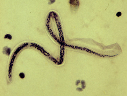 Wuchereria bancrofti Microfilaria of Wuchereria bancrofti, from a patient seen in Haiti. Thick blood smears stained with hematoxylin. The microfilaria is sheathed, its body is gently curved, and the tail is tapered to a point. The nuclear column (the cells that constitute the body of the microfilaria) is loosely packed, the cells can be visualized individually and do not extend to the tip of the tail. The sheath is slightly stained with hematoxylin.